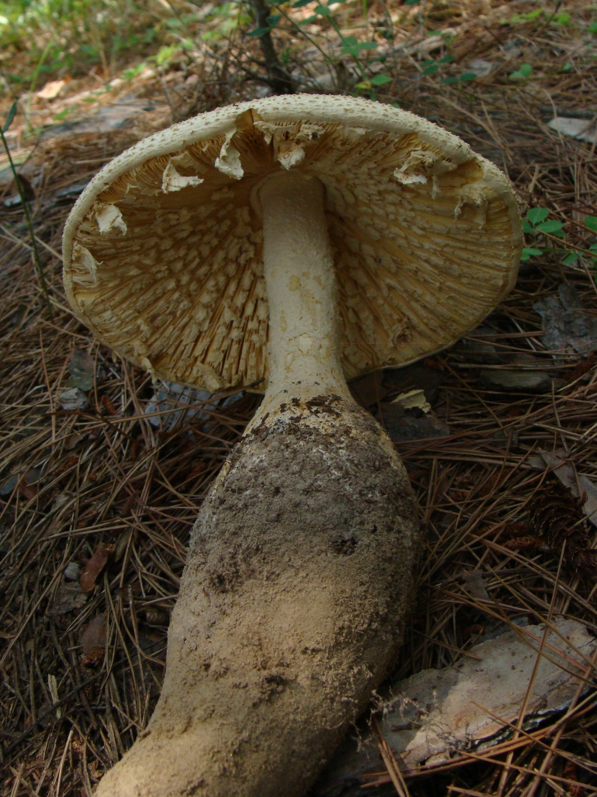 A fruit body of the fungus Amanita ravenelii (Berk. & Curt.) Sacc. showing the characteristic bulb at the base of the stem. Specimen photographed in Hawn State Park, Missouri, USA.